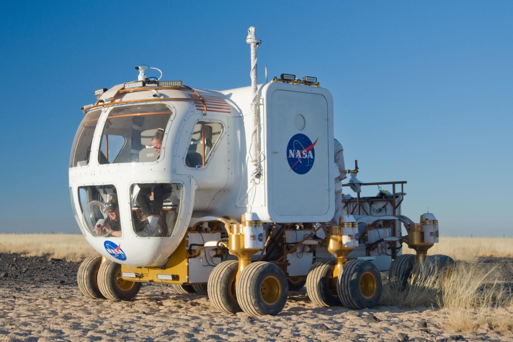 This is one prototype version for NASA's next lunar rover, termed the Lunar Electric Rover. This small pressurized rover is about the size of a pickup truck (with 12 wheels) and can house two astronauts for up to 14 days with sleeping and sanitary facilities. It is designed to require little or no maintenance, be able to travel thousands of miles climbing over rocks and up 40 degree slopes during its ten-year life exploring the harsh surface of the moon. The rover frame was developed in conjunction with an off-road race truck team and was field tested in the desert Southwest by driving on rough lava.